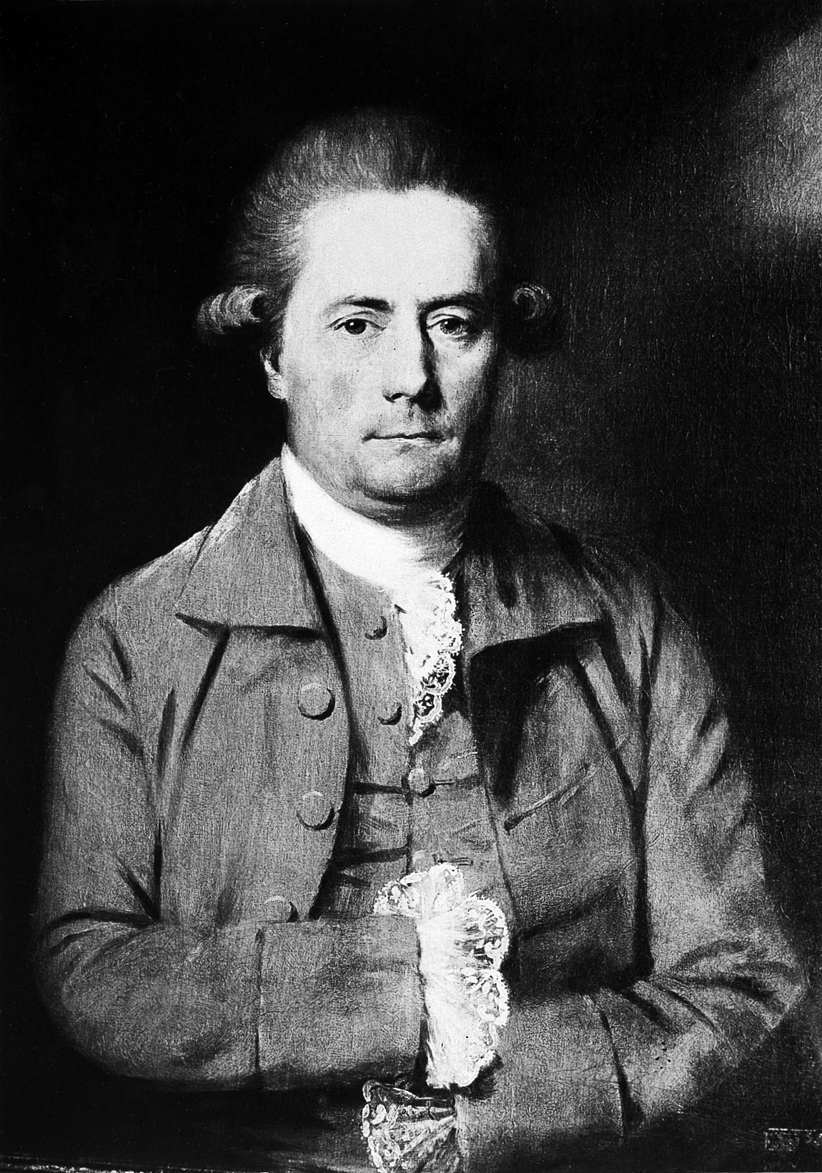 Portrait of Thomas Brewster and prints of his home Iconographic Collections Keywords: physican at bath; Thomas Brewster